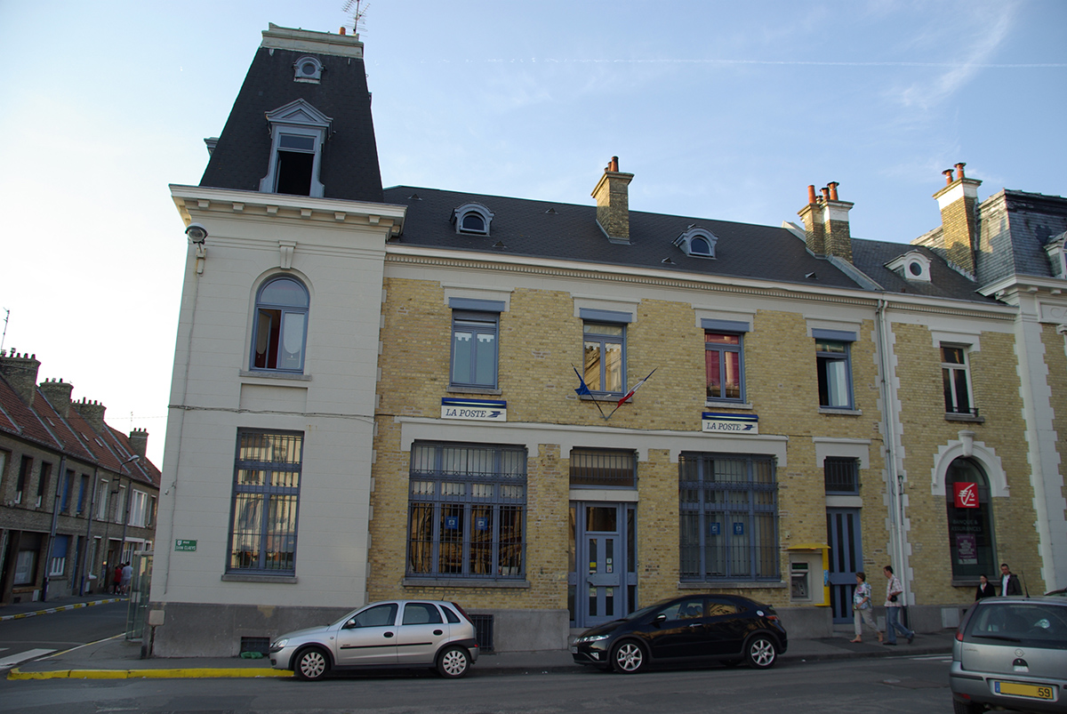 The right Poste in Bergues, Nord-Pas-de-Calais, France